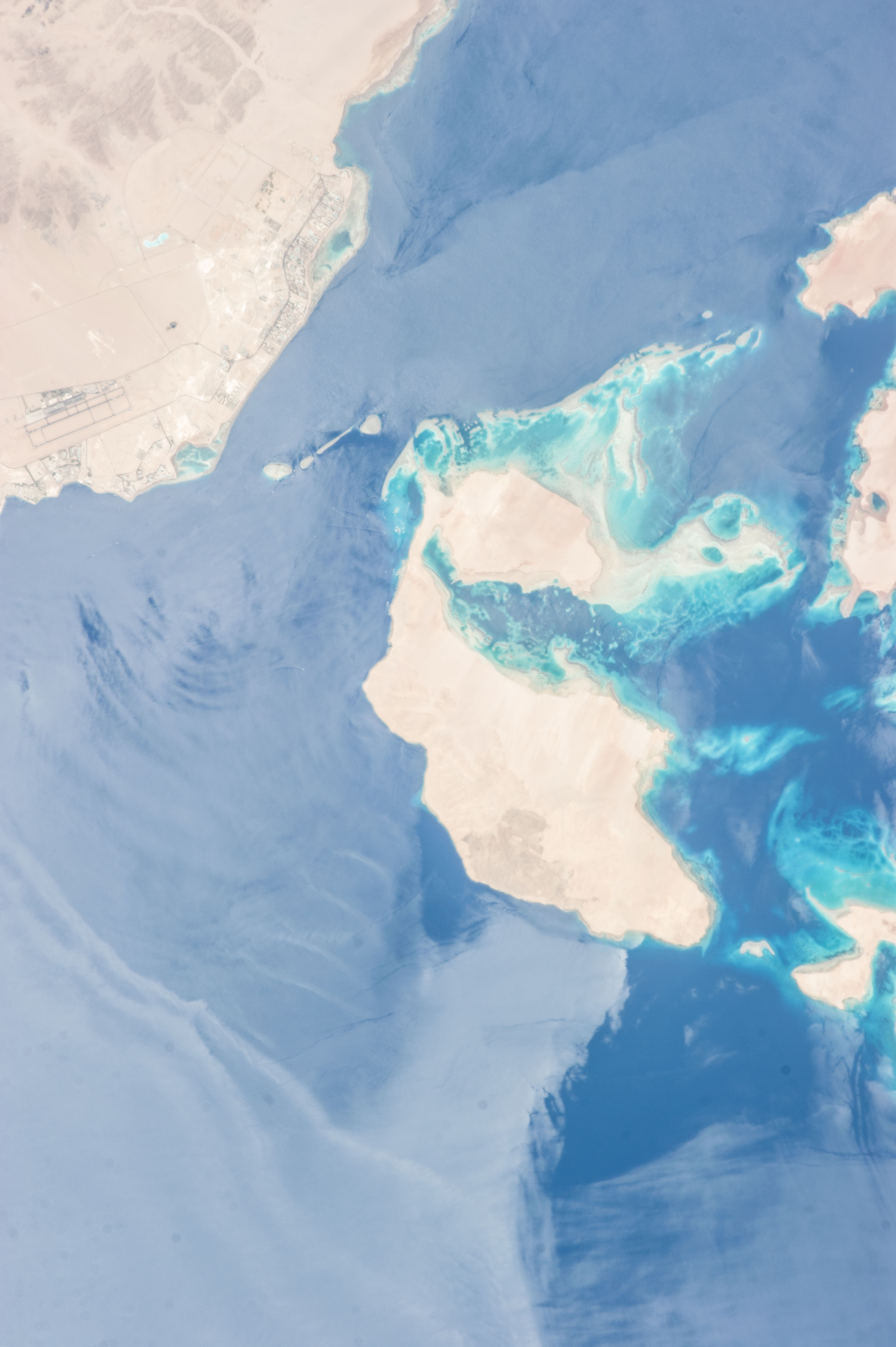 Strait of Tiran, Red Sea and Gulf of Aqaba are featured in this image photographed by an Expedition 36 crew member on the International Space Station. The approximately six-kilometer wide Strait of Tiran (also known as the Straits of Tiran) between the Egyptian mainland and Tiran Island separates the Gulf of Aqaba from the Red Sea, and provides two channels (290 meters and 73 meters deep, respectively) navigable by large ships bound for ports in Jordan and Israel. A smaller passage also exists between the east side of Tiran Island and Saudi Arabia, but this a single channel that is 16 meters deep. Due to its strategic position, control of the Strait has been an important factor in historical conflicts of the region, such as the Suez Crisis in 1956 and the Six-Day War in 1967. This photograph illustrates the morphology of the Strait. The relatively clear, deep-water passages of the western Strait of Tiran are visible at right, while the more sinuous shallow-water passage on the Saudi Arabia side can be seen at bottom center. Light blue to turquoise areas around Tiran Island indicate shallow water, while the island itself is arid and largely free of vegetation. Coral reefs are also found in the Straits of Tiran and are a popular diving destination. The silvery sheen on the water surface within the Strait and the south of Tiran Island is sunglint – light reflecting off the water surface back towards the observer on the space station. Disturbance to the water surface, as well as presence of substances such as oils and surfactants, can change the reflective properties of the water surface and highlight both surface waves and subsurface currents. For example, a large wave set is highlighted by sunglint at upper left.